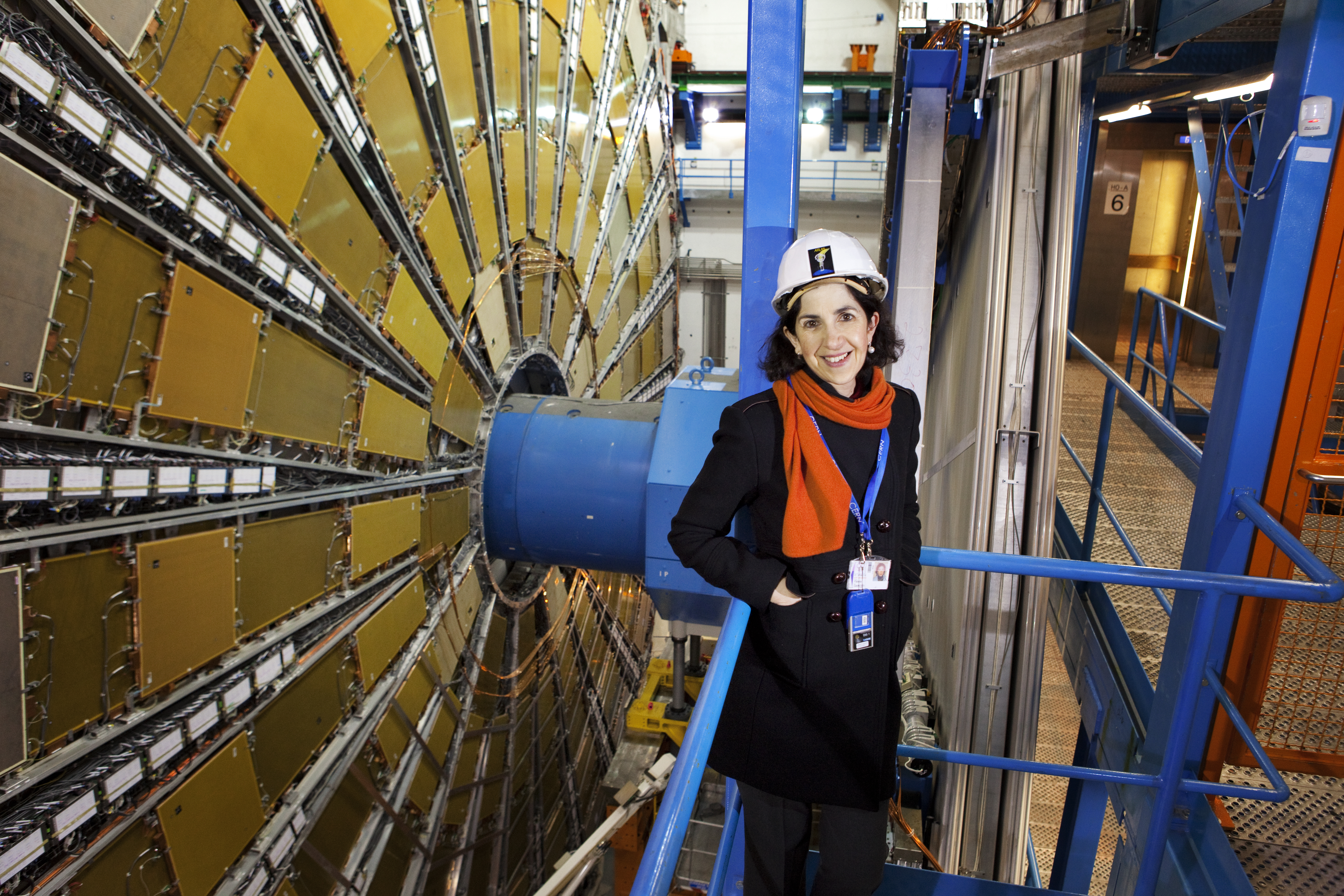 Portrait of Fabiola Gianotti, taken when she was spokesperson of the ATLAS experiment.